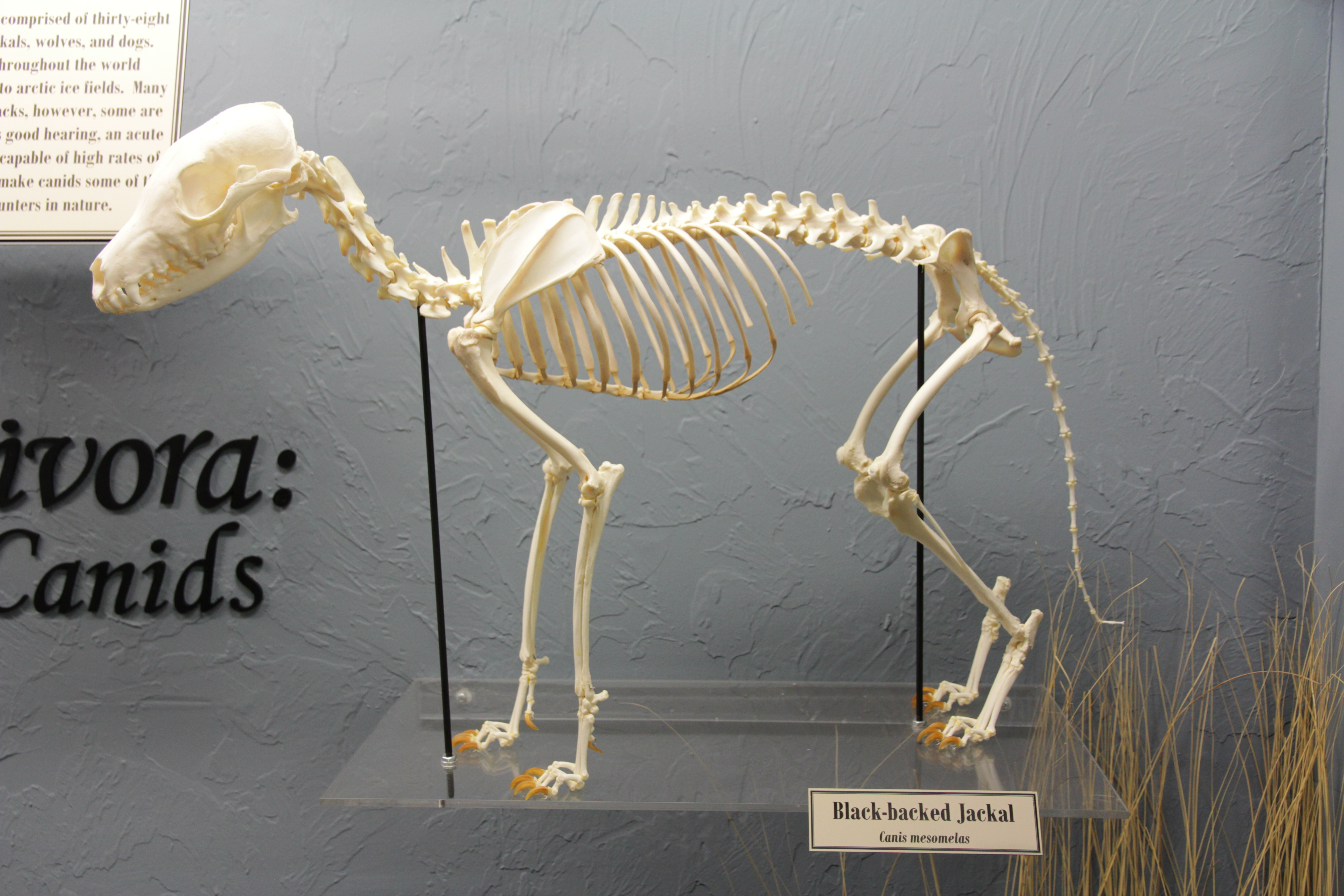 Image of a black-backed jackal skeleton on display at the Museum of Osteology.